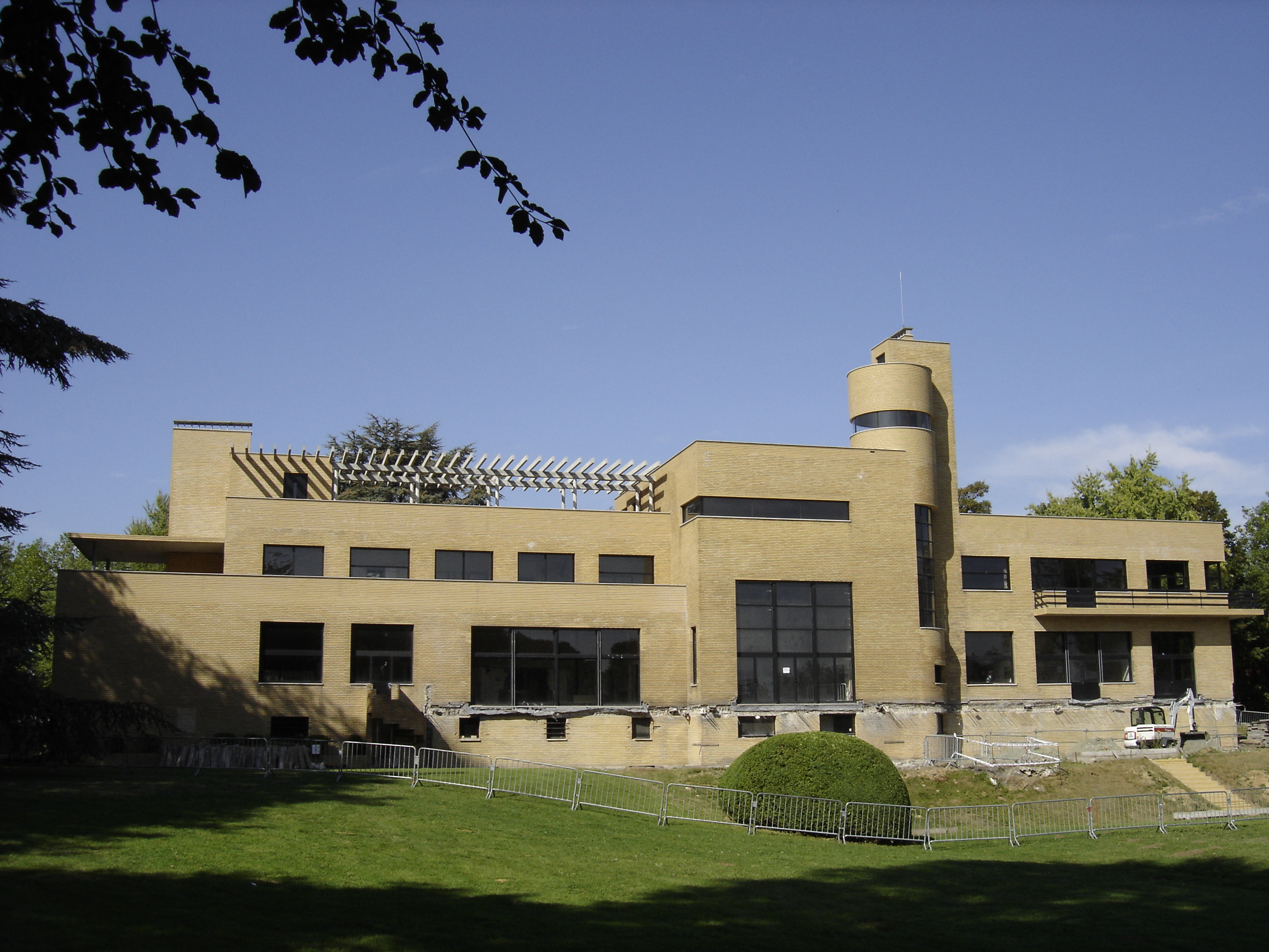 The Main Hall and belvedere tower on the left, the northeast wing on the right, with deskroom and bedroom on the first floor and parental suite on the second room. Car garage entrance on far right.